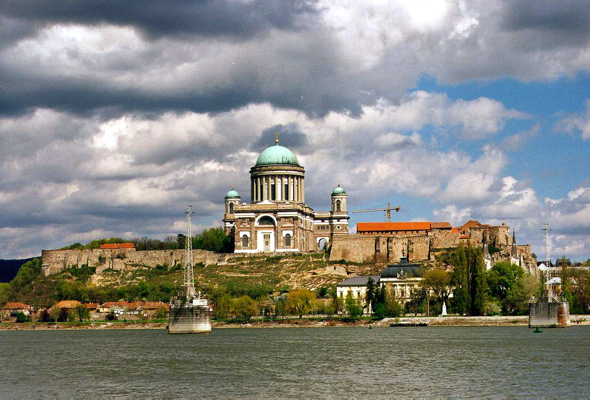 Hungary, Bazilika in Esztergom, Marie Valerie Bridge in ruins yet